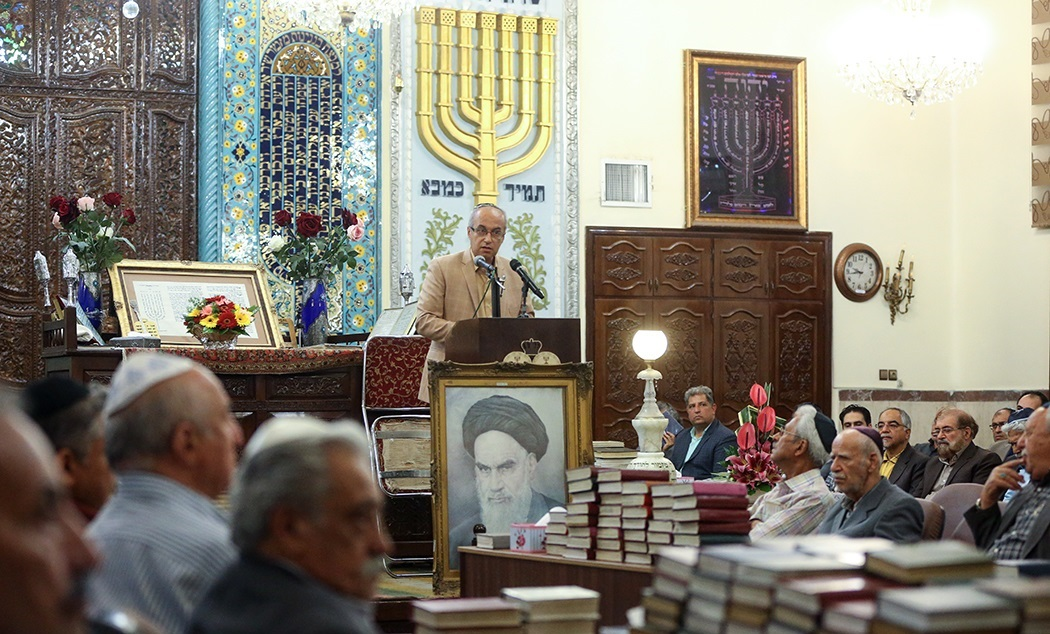 29th Ruhollah Khomeini's Death Anniversary, Yusef Abad Synagogue - 30 May 2018. main album